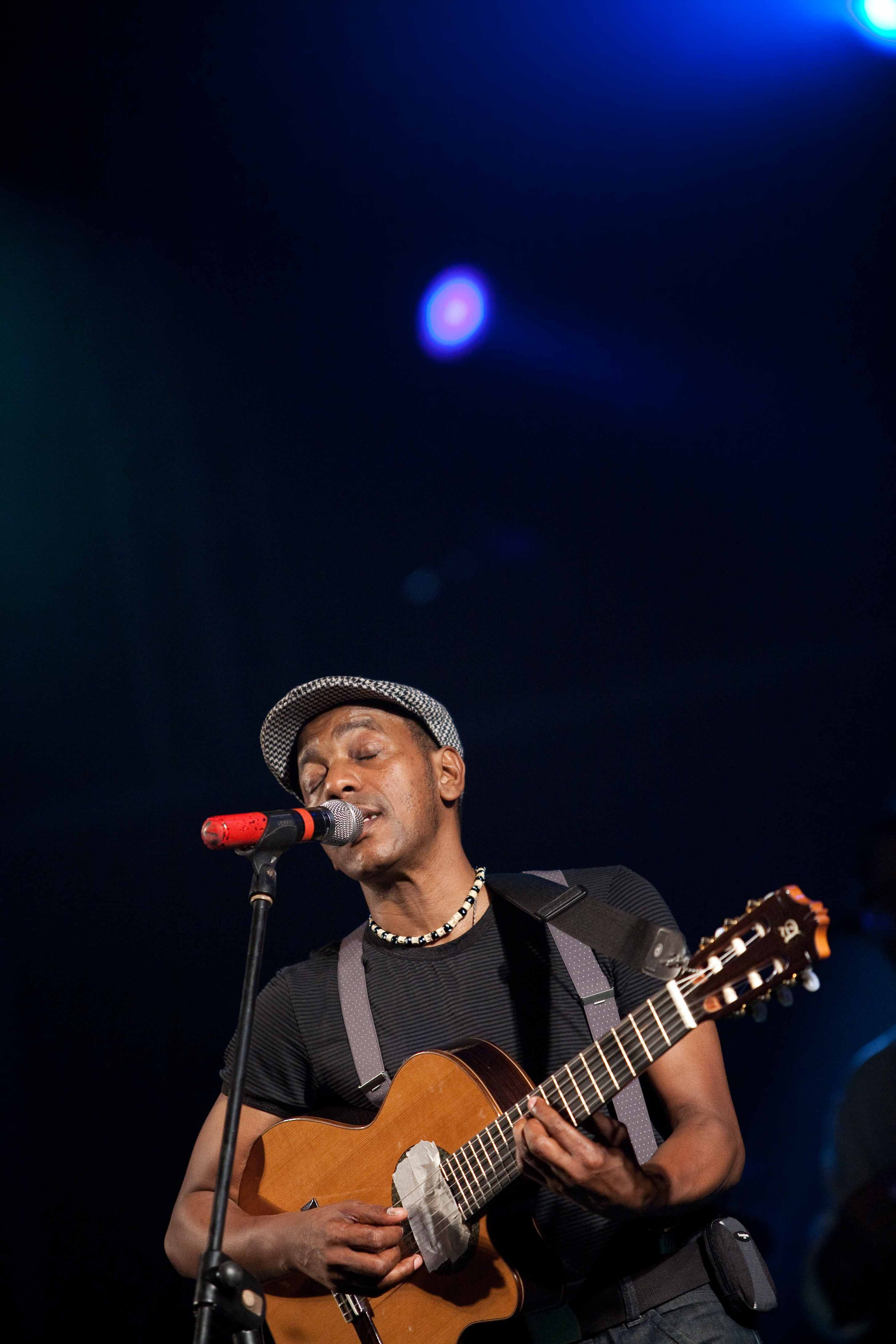 Tito Paris in celebration of 35th anniversary of independence Cape Verde.